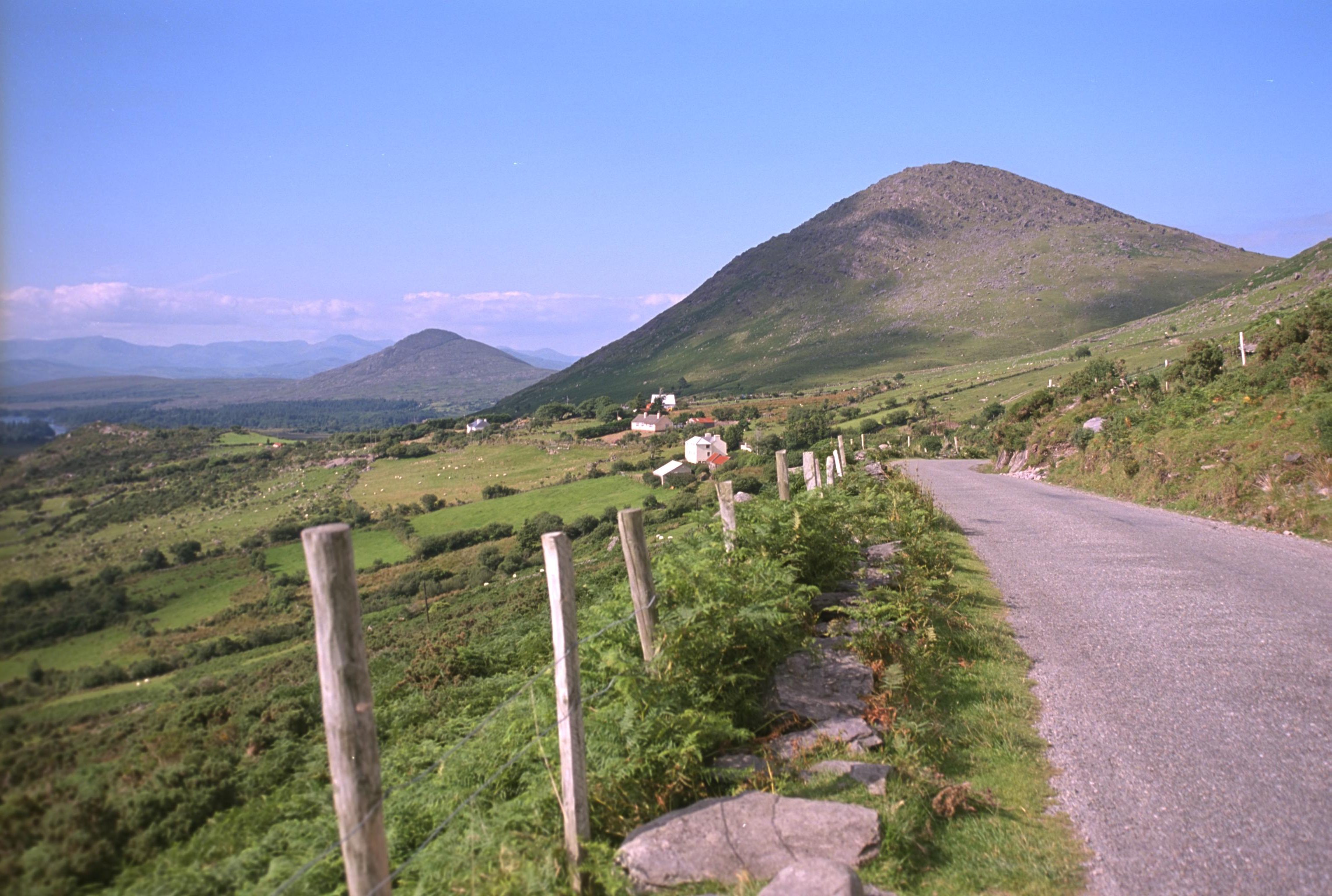 Healy Pass, County Kerry, Ireland View from the Healy Pass (R574) on the Beara peninsula in North direction. At the horizon, the heights of the Iveragh peninsula are to be seen.